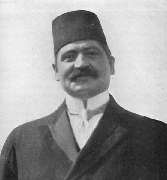 Portrait of Talaat Pasha, Minister of Interior of the Ottoman Empire between 1913 and 1917, and primary executor of the Armenian Genocide.